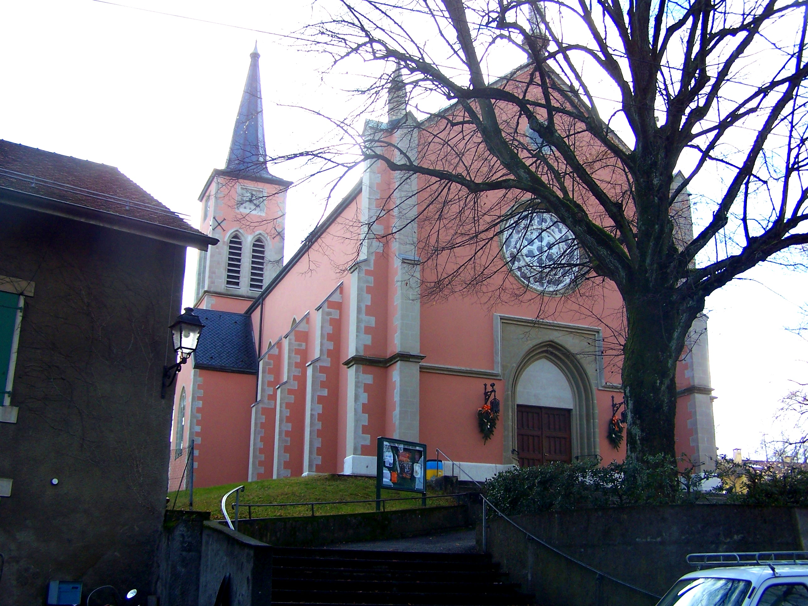 Catholic curch Saint-Maurice in Bernex, Canton of Geneva, Switzerland